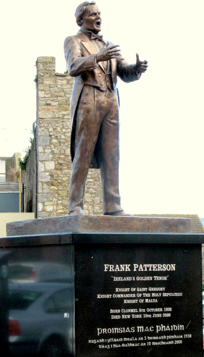 Memorial statue in central Clonmel to noted tenor Frank Patterson, a native of the town.